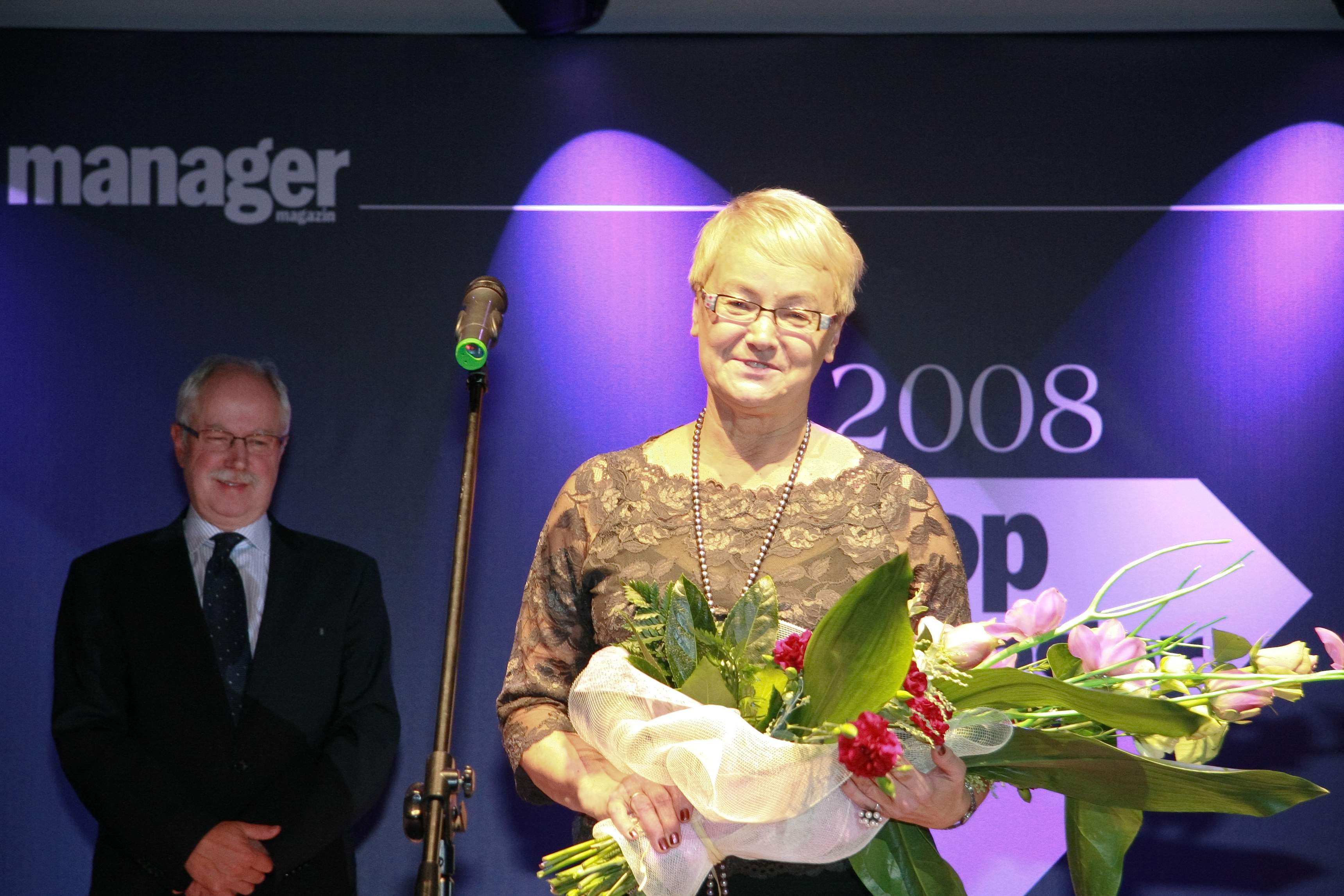 Henryka Bochniarz receives the "Galeria Chwaly"-award in Warsaw hotel Victoria.